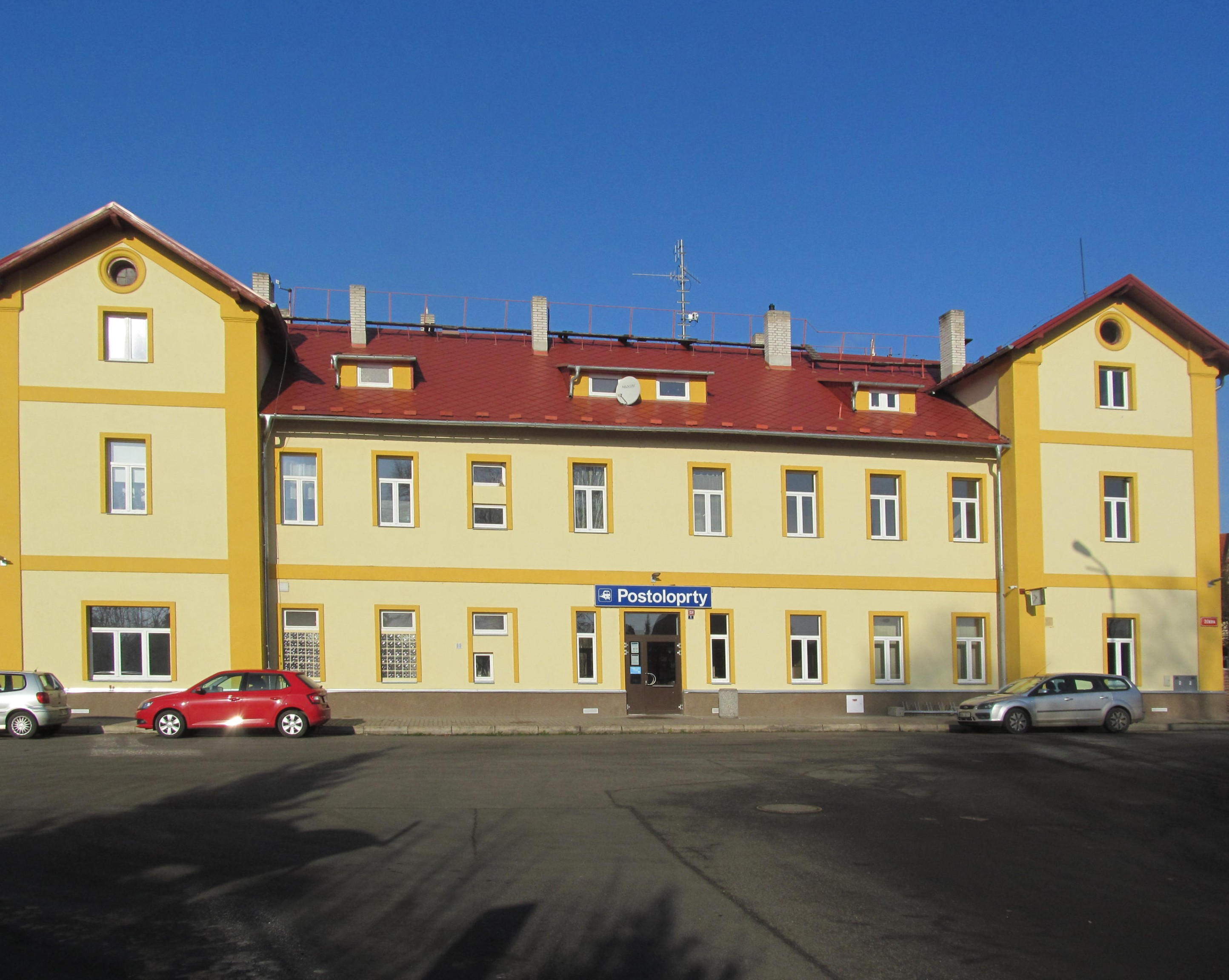 Train station in Postoloprty from 1872